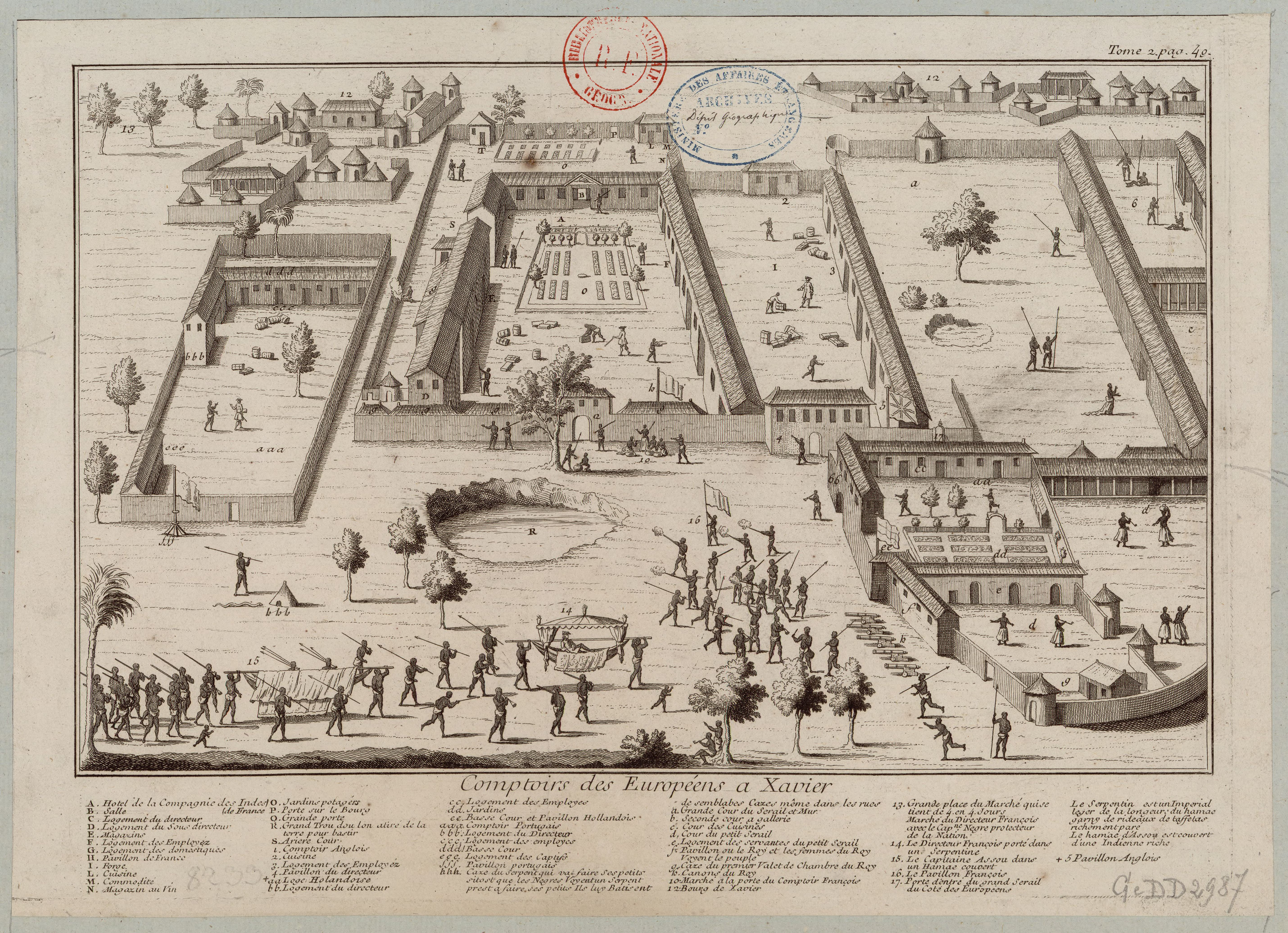 Comptoirs des européens à Xavier. View of Savi (Benin) published in Paris by Jean-Baptiste Labat based on material by Renaud des Marchais. Bibliothèque nationale de France, département Cartes et plans, GE DD-2987 (8233)